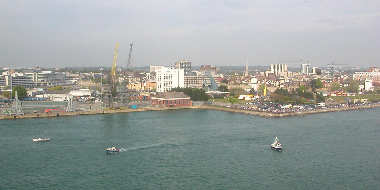 View (1) of Southampton docks from departing MV Aurora. Photographed on 22nd April 2007.